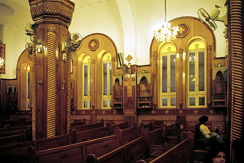 Left side, Abu Seifein church, Deir el-Azab, el-Fayyum, Egypt